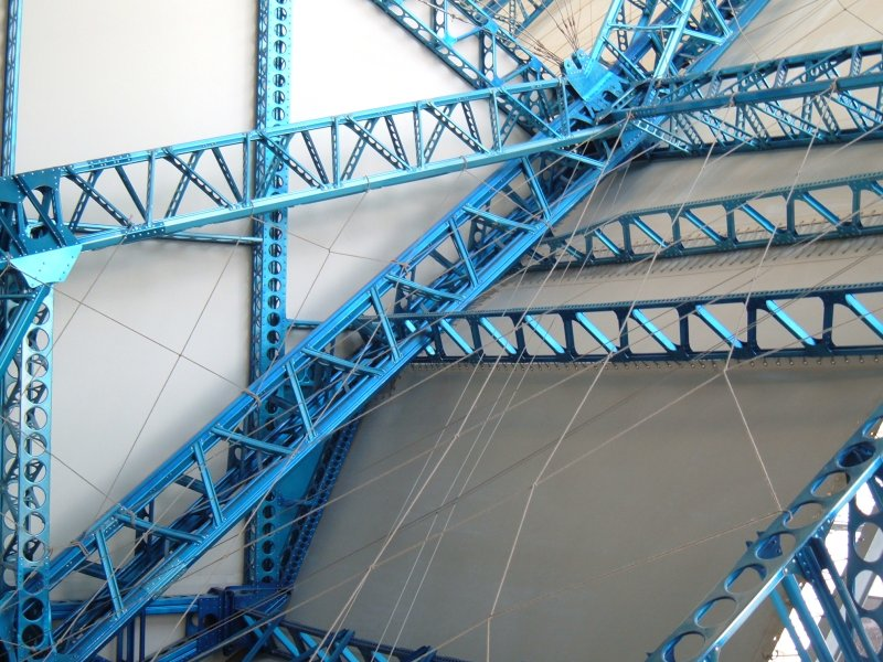 Structure of the partial LZ 129 Hindenburg replica at the Zeppelin Museum in Friedrichshafen am Bodensee. Photographed by Willy Logan on July 28, 2006.